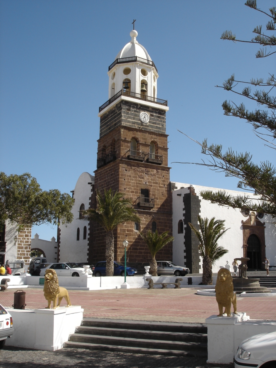 Plaza de la Constitución and Michael's Church in Teguise, Lanzarote, Canary Islands, España.